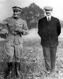 Lt. Foulois and Orville Wright in 1909. (Photo courtesy of the Goodier Collection, Air Force Historical Research Agency, Maxwell Air Force Base, Ill.)